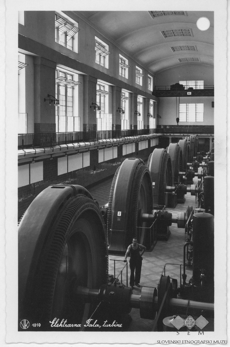 Postcard of Hydroelectric power plant Fala